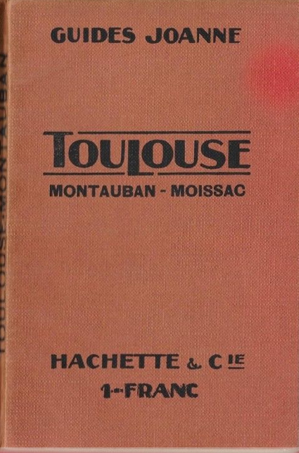 Cover of "Toulouse" of "Guides Joanne" travel book series